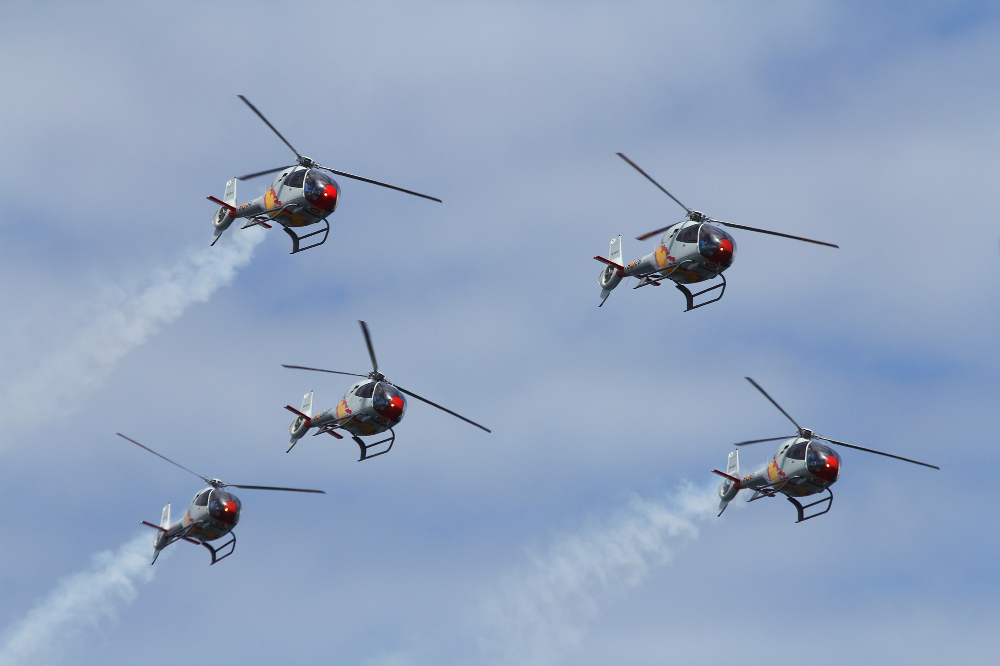 Festival Aéreo de La Coruña, España. 20 de julio de 2014. Eurocopter EC-120B Colibri of the Patrulla Aspa of the Spanish Air Force Corunna AirShow, Spain. July 20, 2014.